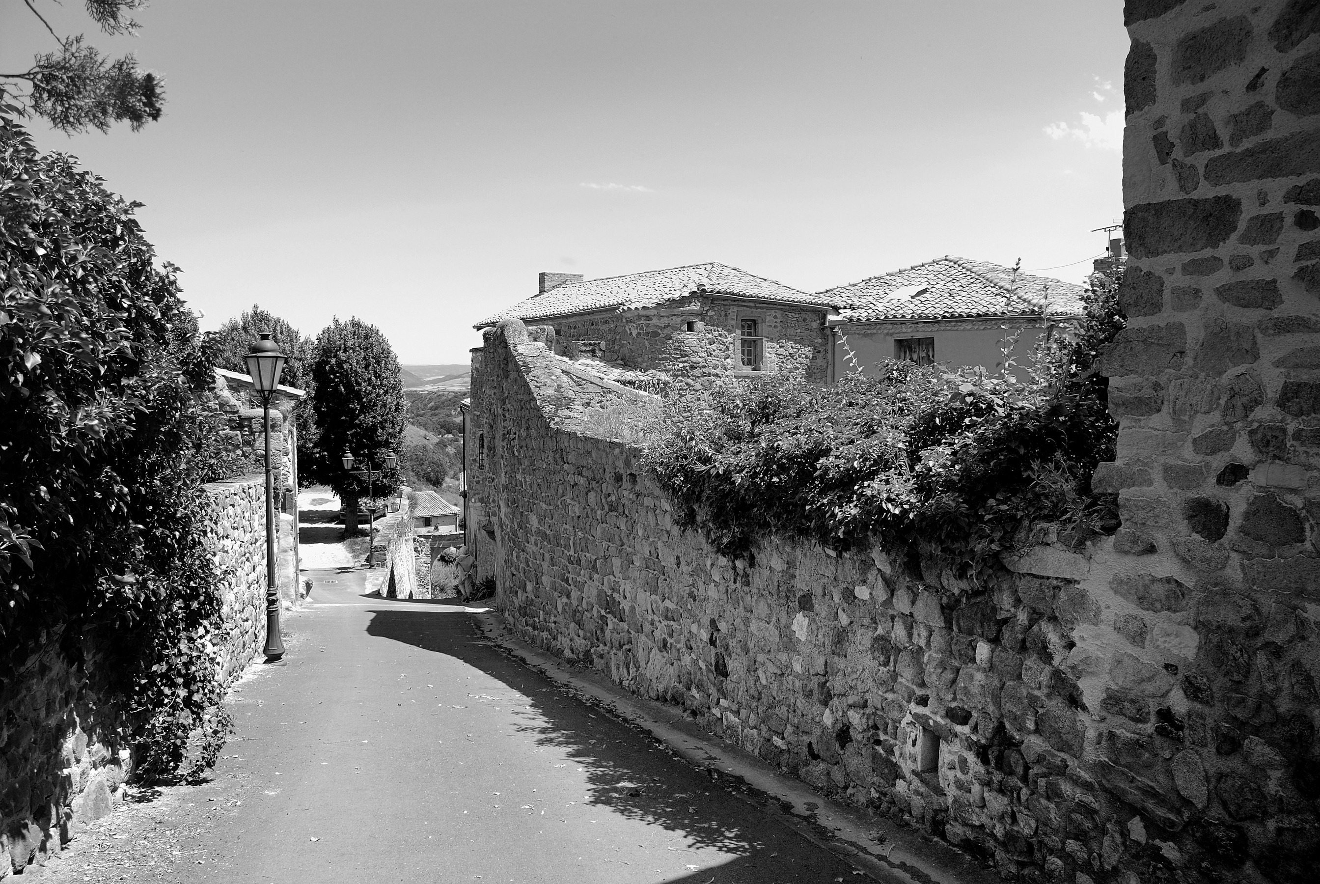 Montaigut-le-Blanc : street (Puy-de-Dôme, France). Translations in other languages are welcome.